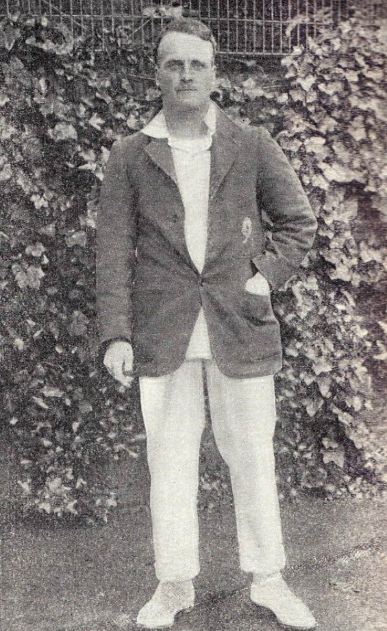 Roy Kilner pictured in 1922.